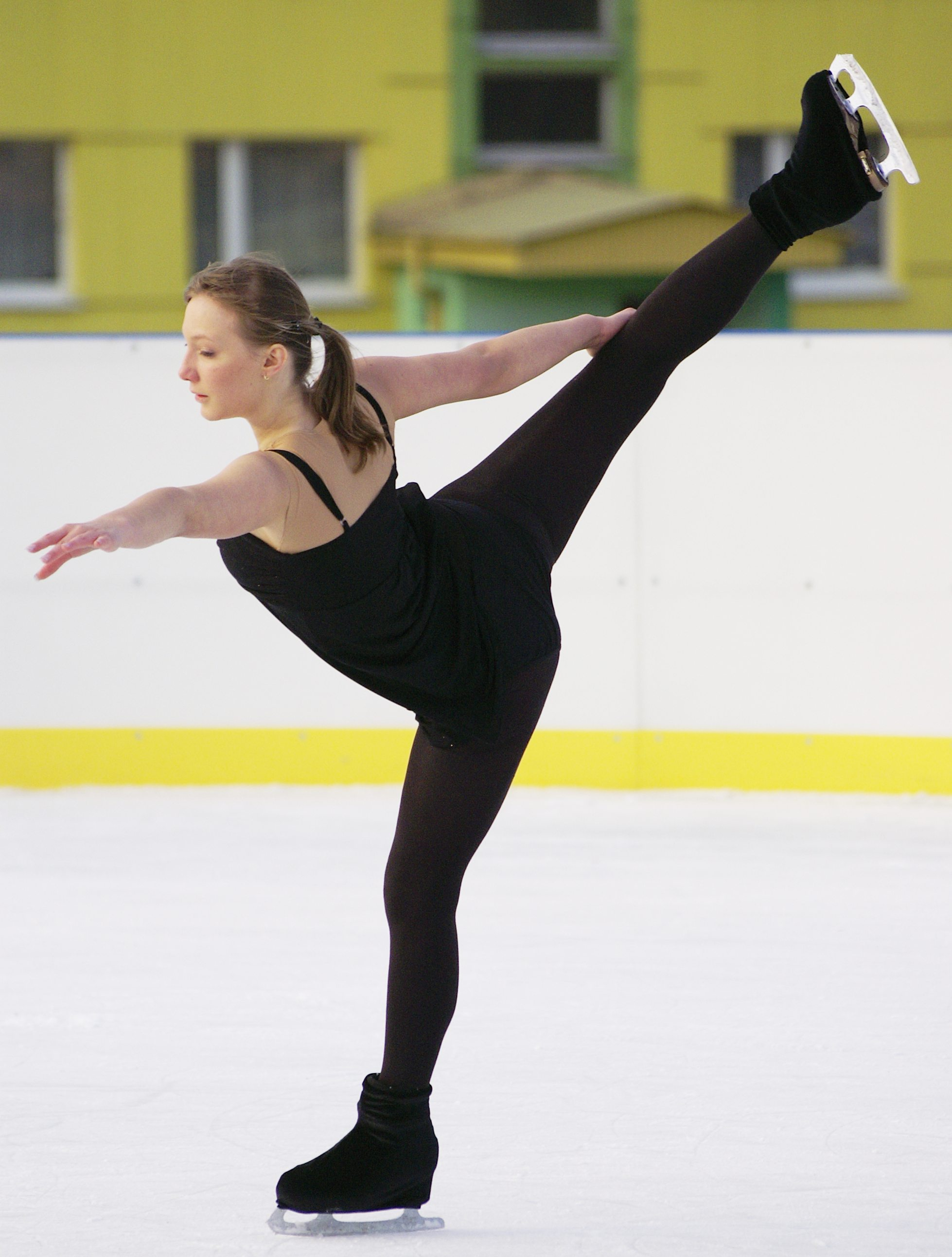 Asia arabeska